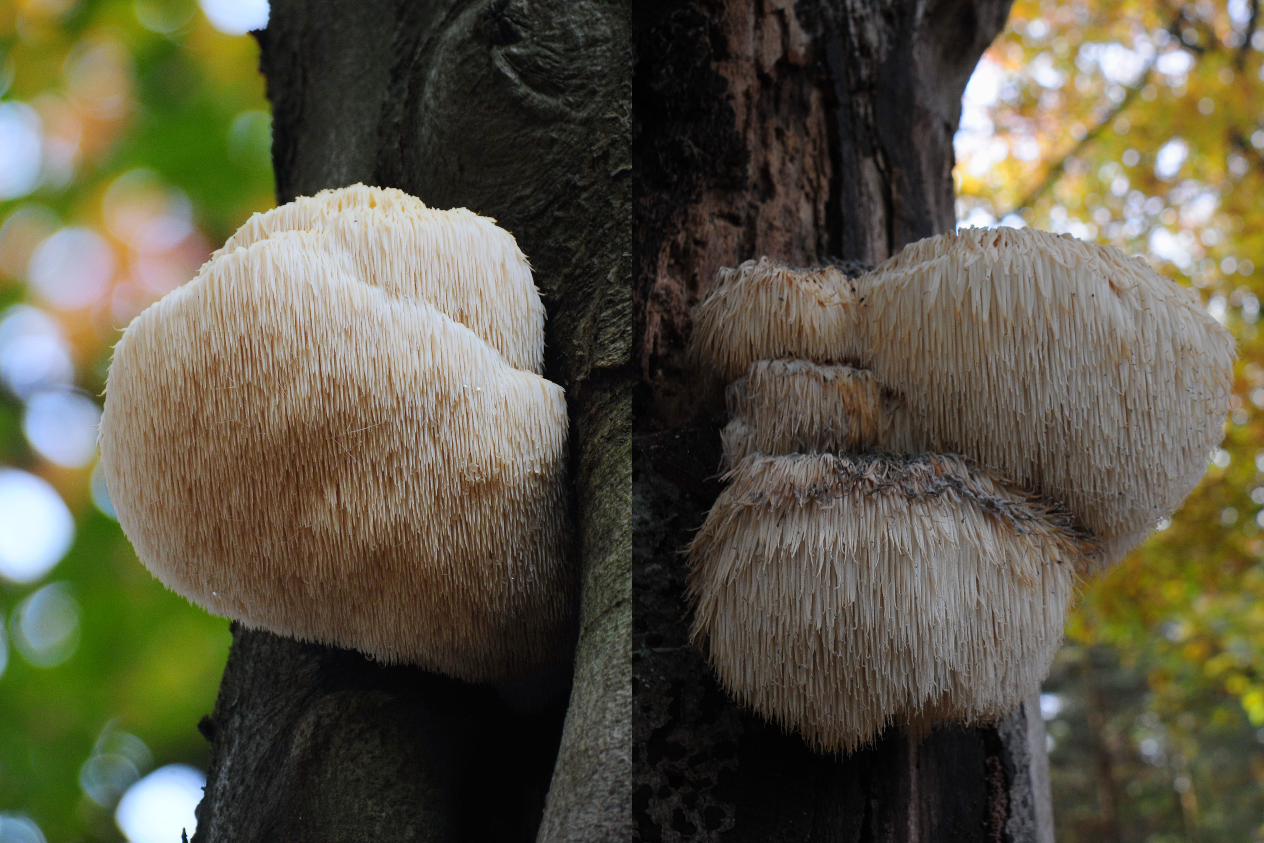 Hericium erinaceus (Bearded Tooth or Lion's Mane Mushroom, D= Igel-Stachelbart or Löwenmähne, F= Hydne hérisson, NL= Pruikzwam) white spores and causes white rot. Just opposite each other, at Schaarsbergen forest